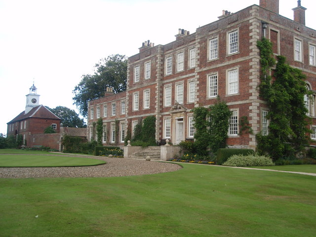 Gunby Hall Ancestral Home of the Massingberd family